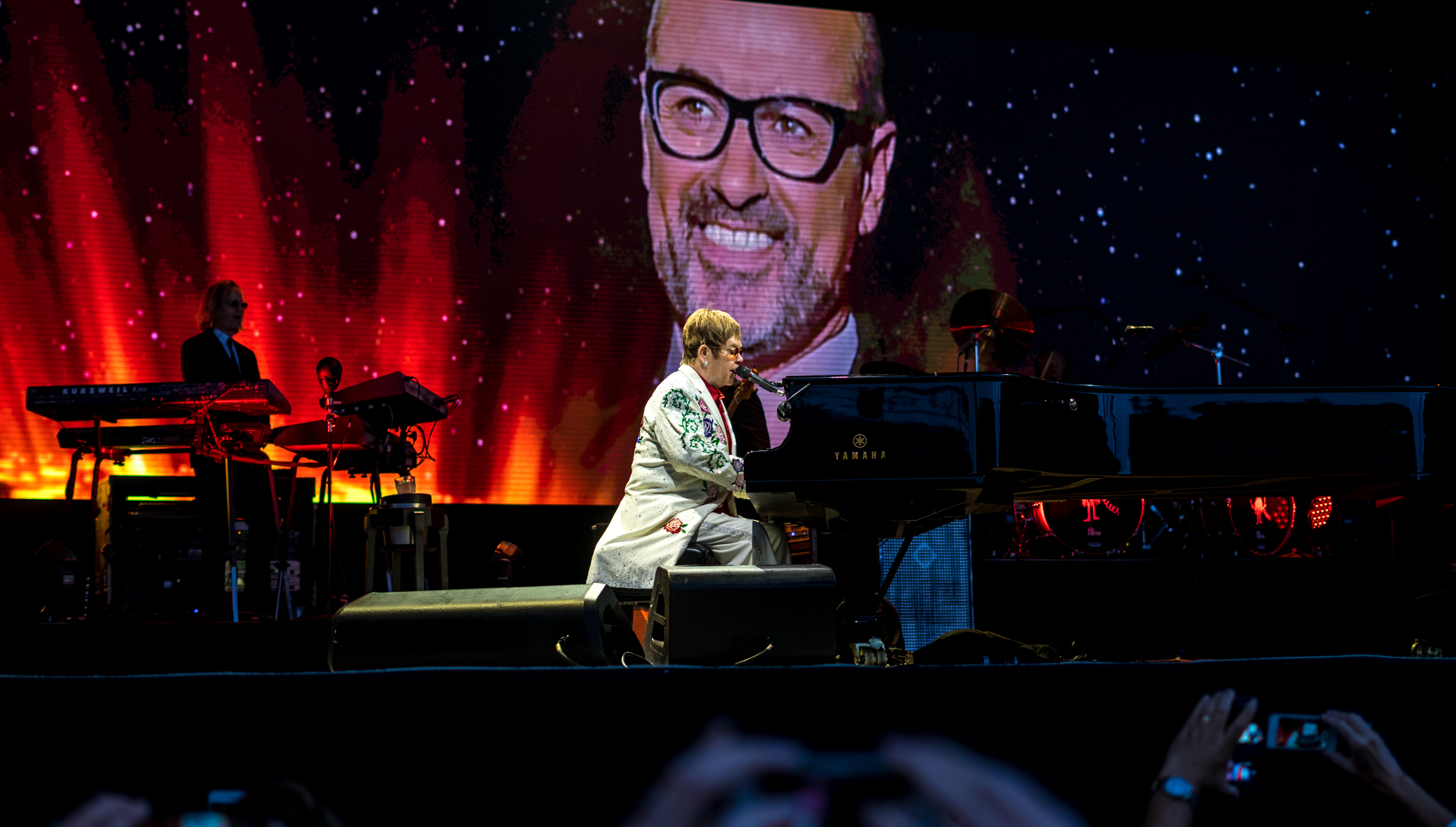 EltonTwicStoop030617-14